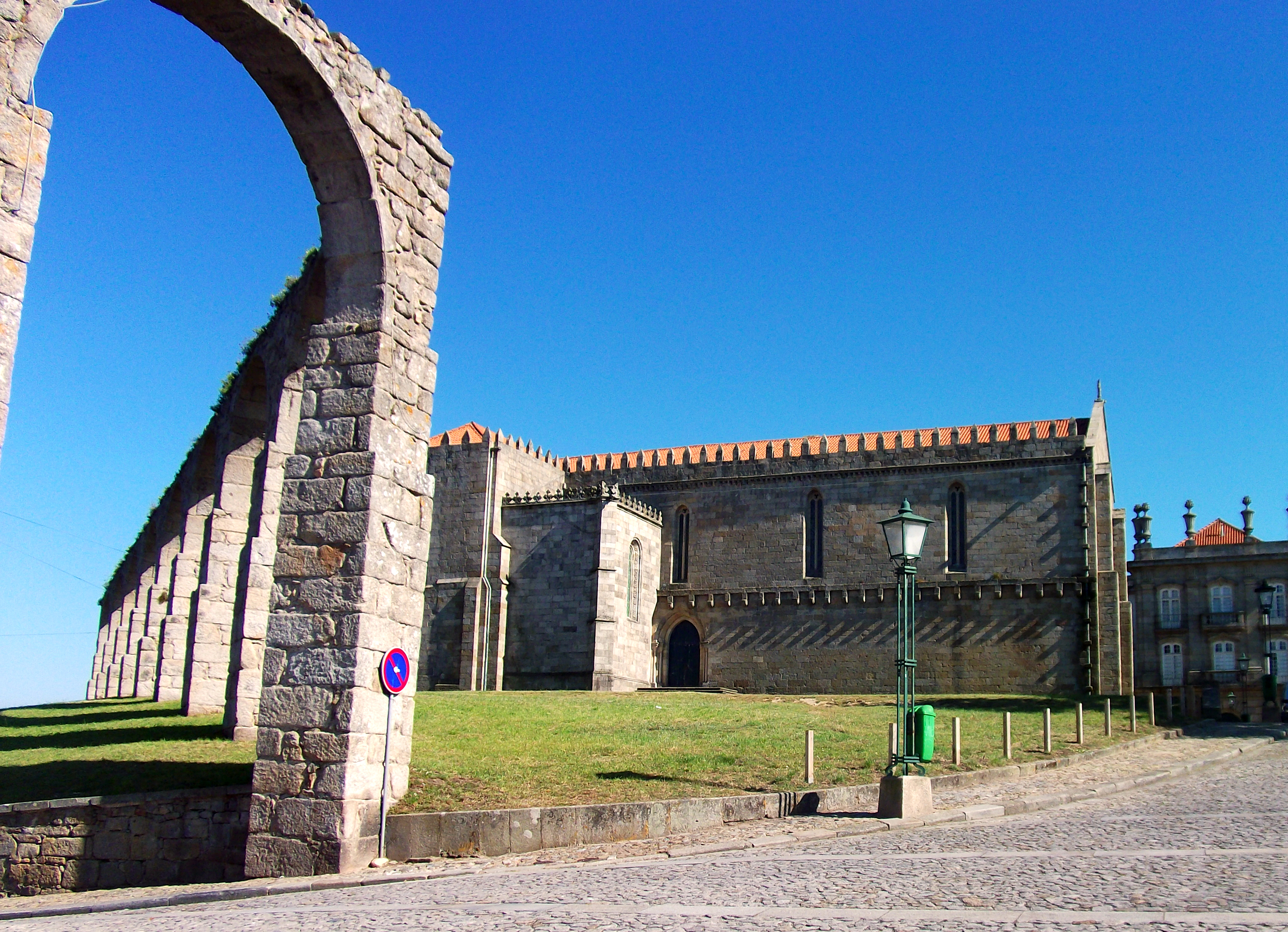 Gothic Santa Clara Church in the Monastery of Santa Clara, Vila do Conde